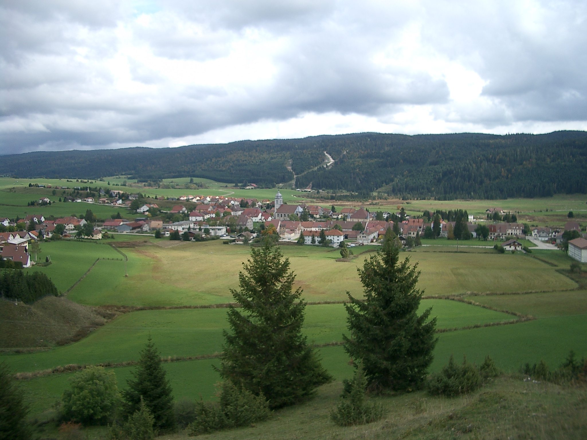 Town of Mouthe, France